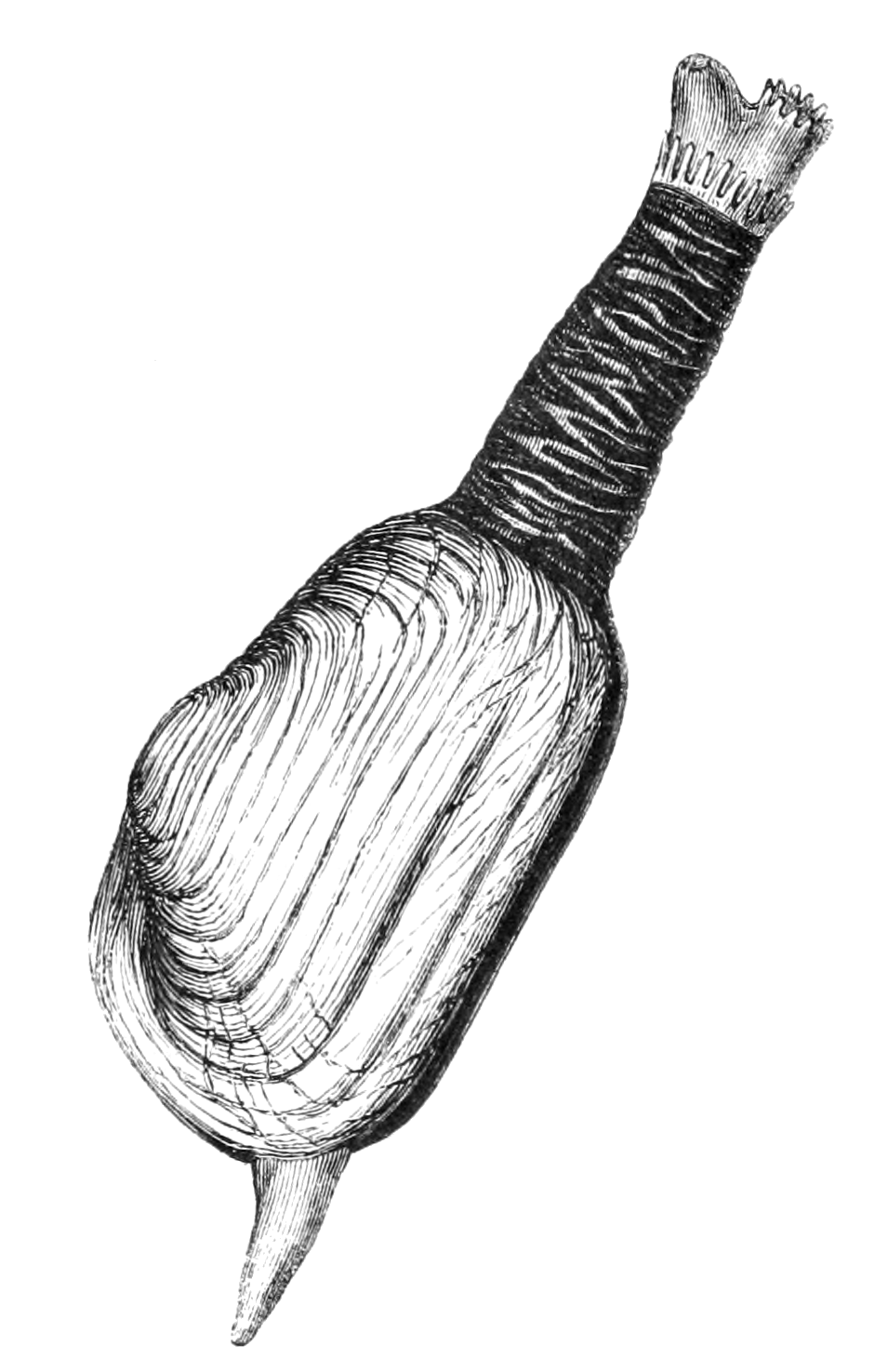 Illustration from Natural History: Mollusca (1854), p. 292 - "SAND GAPER" (Mya arenaria).